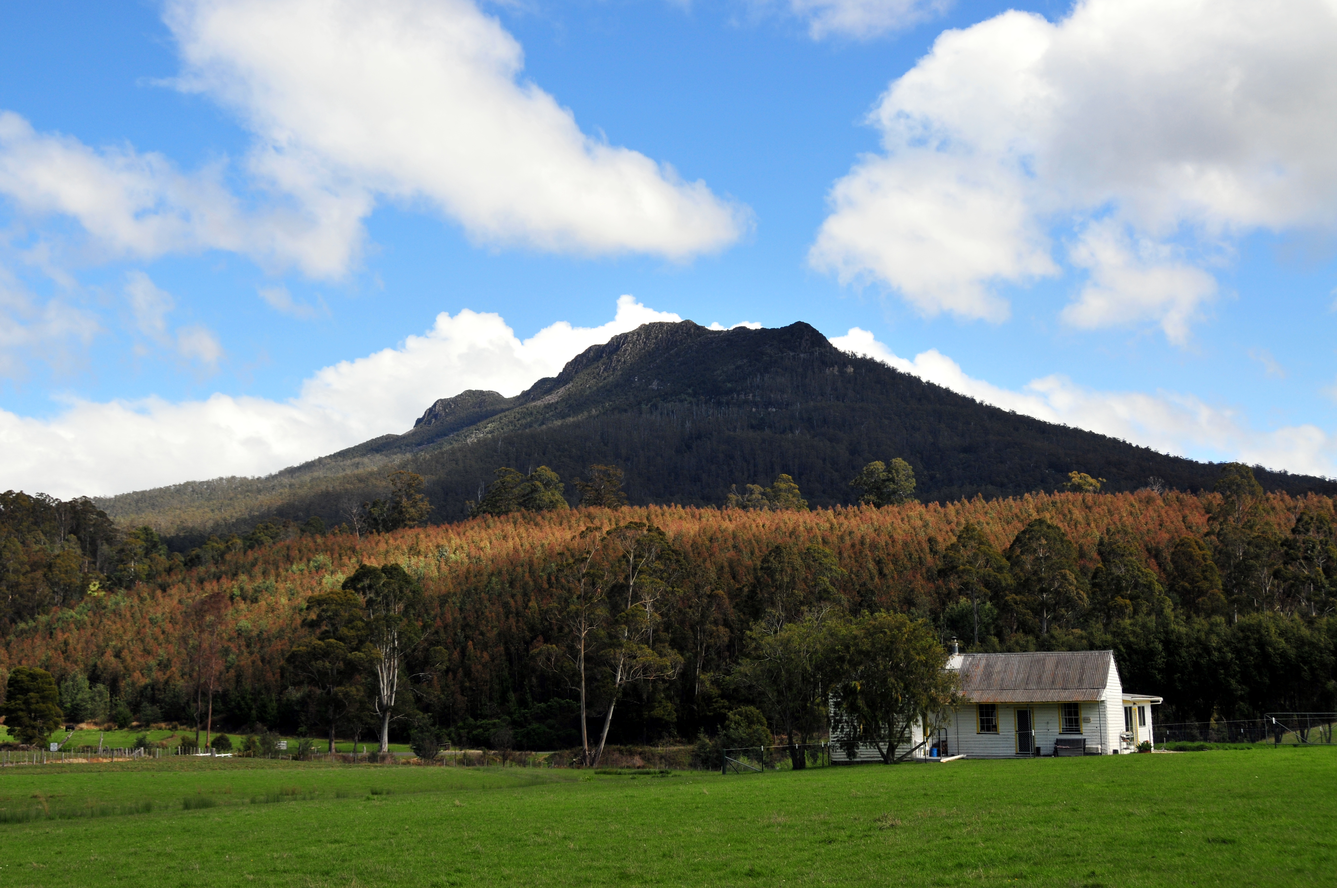 Quamby bluff, south of Deloraine, Tasmania, Australia